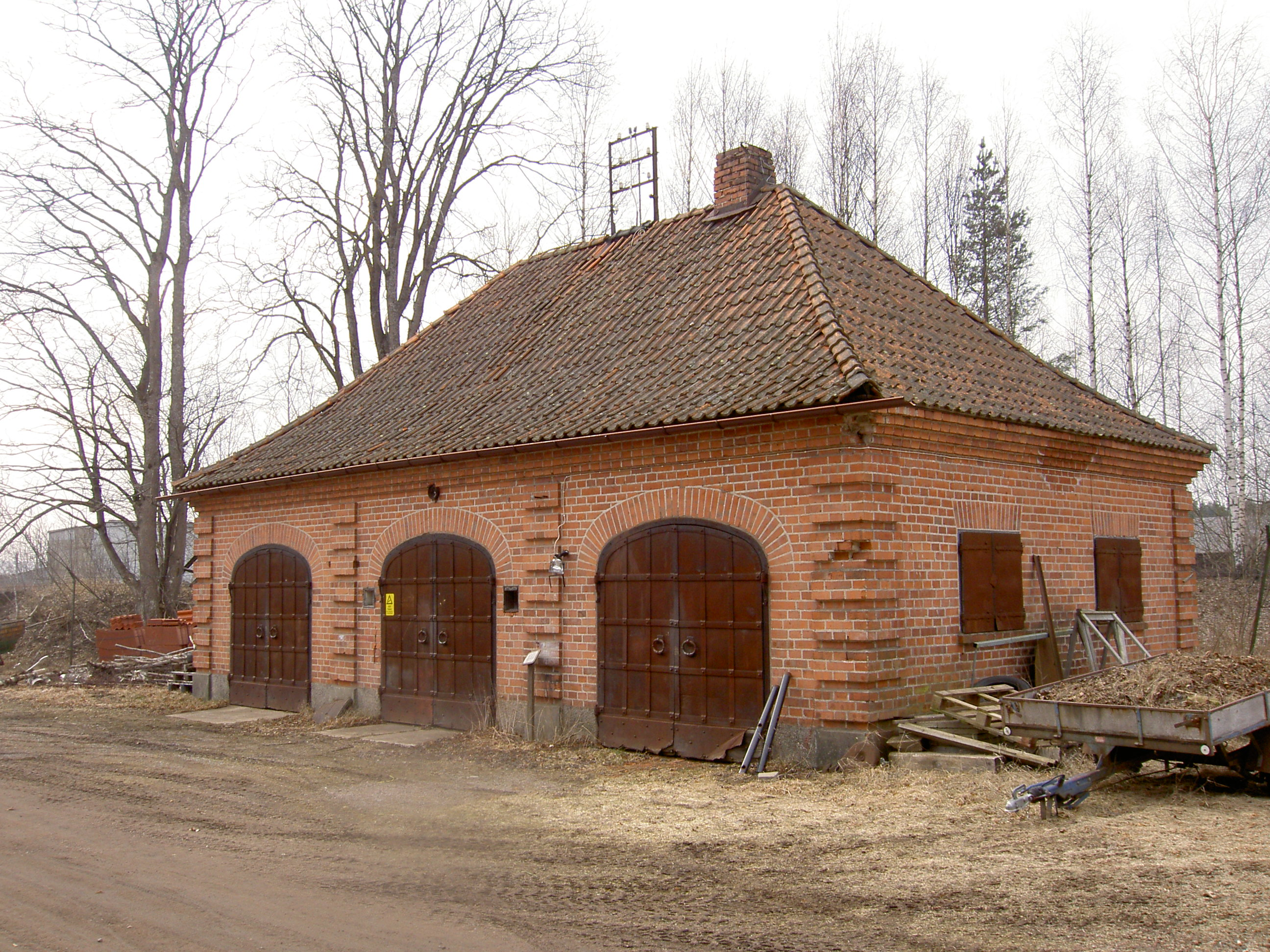 Old fire station, Horndals bruk, Sweden. Before it was a fire station it was a stable.